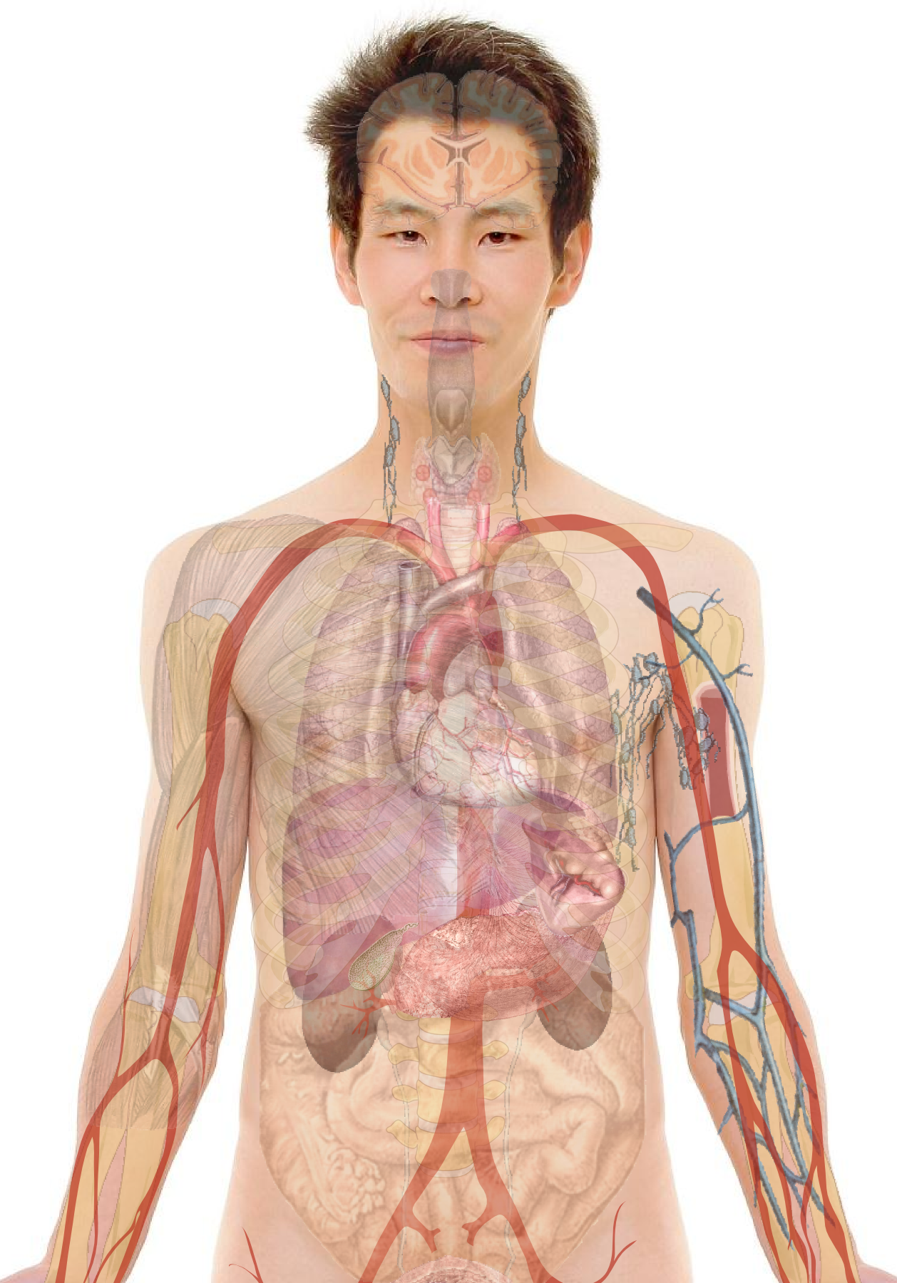 Image for use in the Human body diagrams project. To discuss image, please see Talk:Human body diagrams